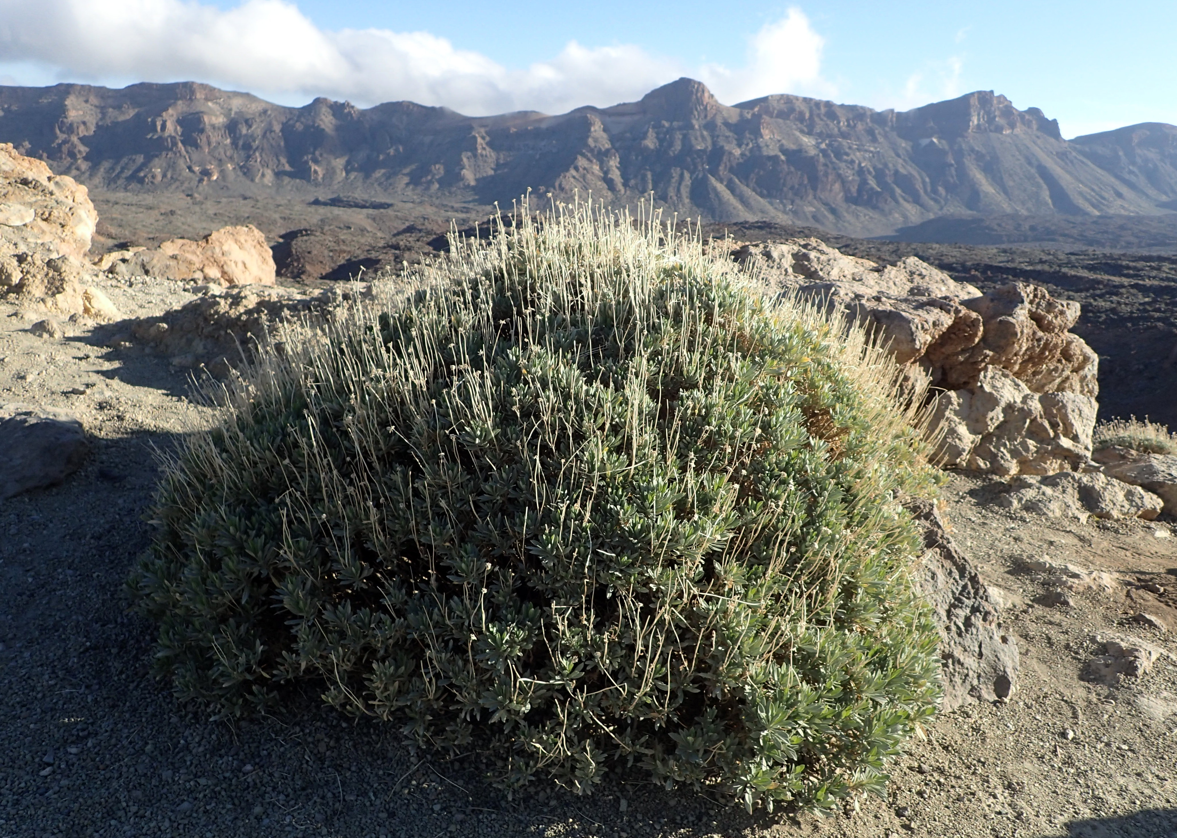 Pterocephalus lasiospermus in Tabonal Negro (Tenerife, Canary Islands)